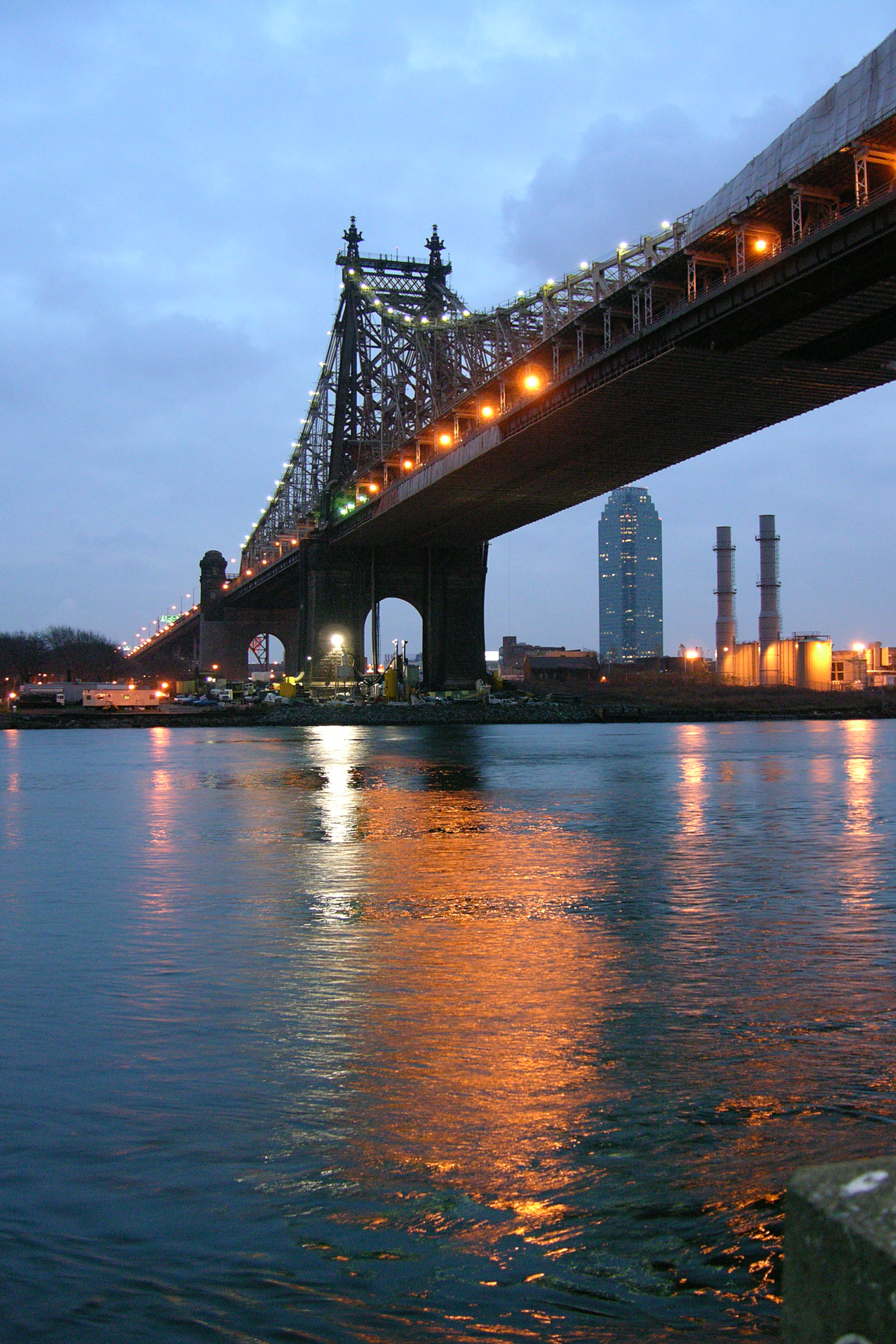 A photograph of the Queensboro Bridge at night. The picture was taken from Roosevelt Island facing Long Island City.